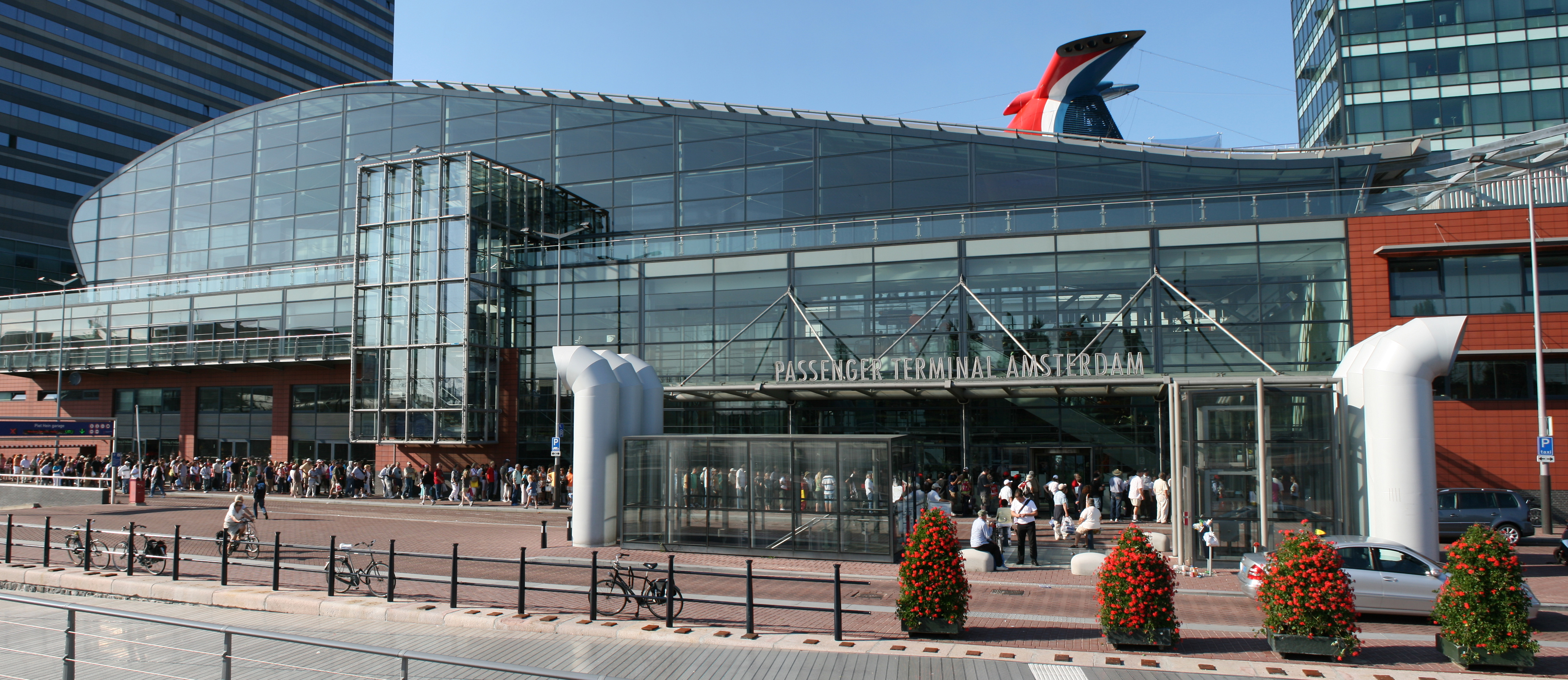 Passenger Terminal Amsterdam, PTA, for cruise ships.